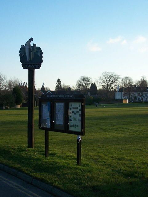 Bearsted Green and Village Sign On The Green. Parish Council Board in photo has history of various places of interest in the area. Sign shows a famous Cricketer born in Bearsted. Could not read that section on sign showing who as sign had been vandalised.